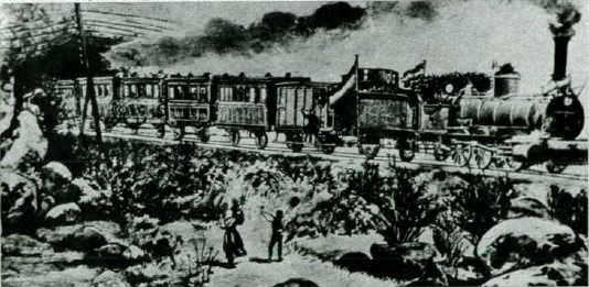 Inaugural train of the direct connection between Madrid and Portugal, after the construction of the last section, between Valencia de Alcántara and Cáceres. This ceremony took place on the 8th October 1881.